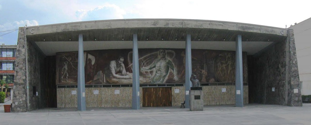 La filosofía y la ciencia mural by Gabriel Flores Located in el auditorio Salvador Allende del Centro Universitario de Ciencias Sociales y Humanidades de la Universidad de Guadalajara